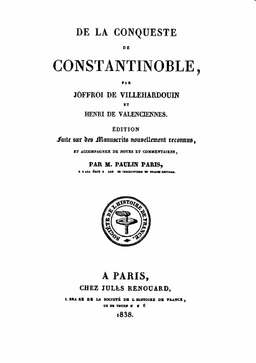 Front page from De la conqueste de Constantinoble, Geoffroy de Villehardouin (Edition 1838, Paris, : édition faite sur des manuscrits nouvellement reconnus..., edited by Henri de Valenciennes)